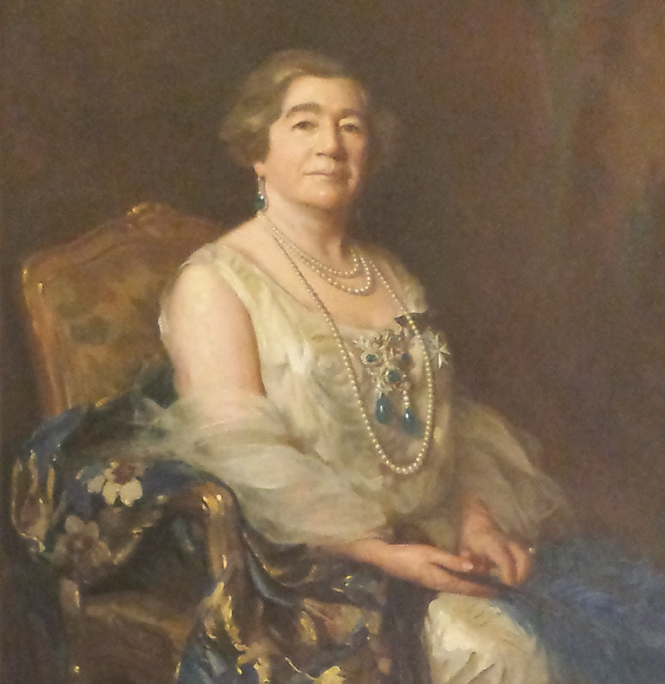 Portrait of Lady Margaret Strickland